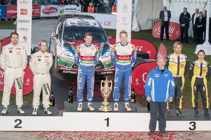 Wales Rally Great Britain 2011 Cardiff,Castle Community,GBR,Großbritannien,Henning Solberg,Ilka Minor,Jari-Matti Latvala,Jonas Andersson,Mads Östberg,Miikka Anttila,Mikka Anttila,Motorsport,Rally,Rallye,Siegerehrung,Wales,Wales Rally GB